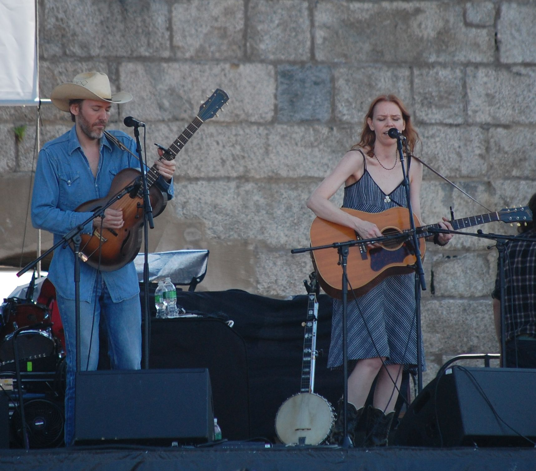 Gillian Welch and David Rawlings @ Newport Folk Festival 2009